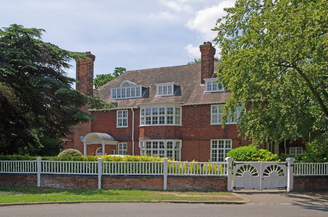 The Cedars